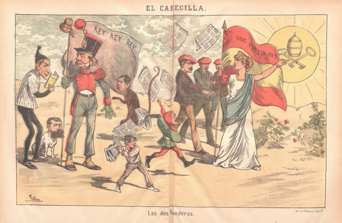 Las dos banderas